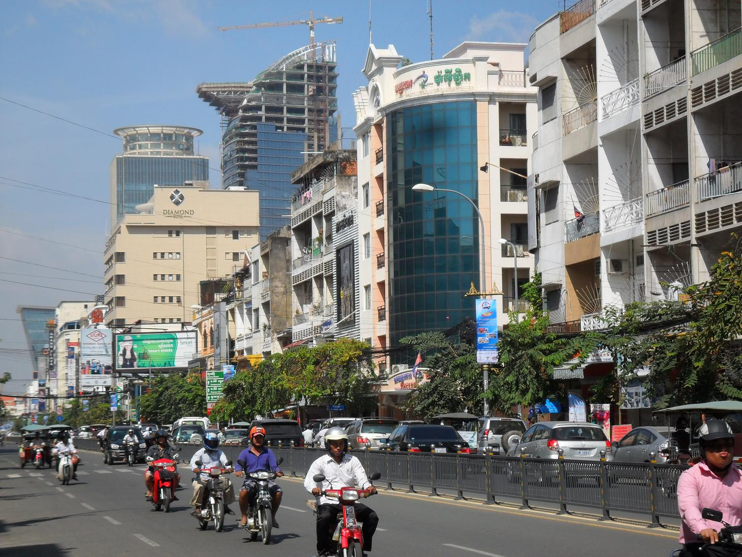 Monivong Blvd, Phnom Penh, Cambodia